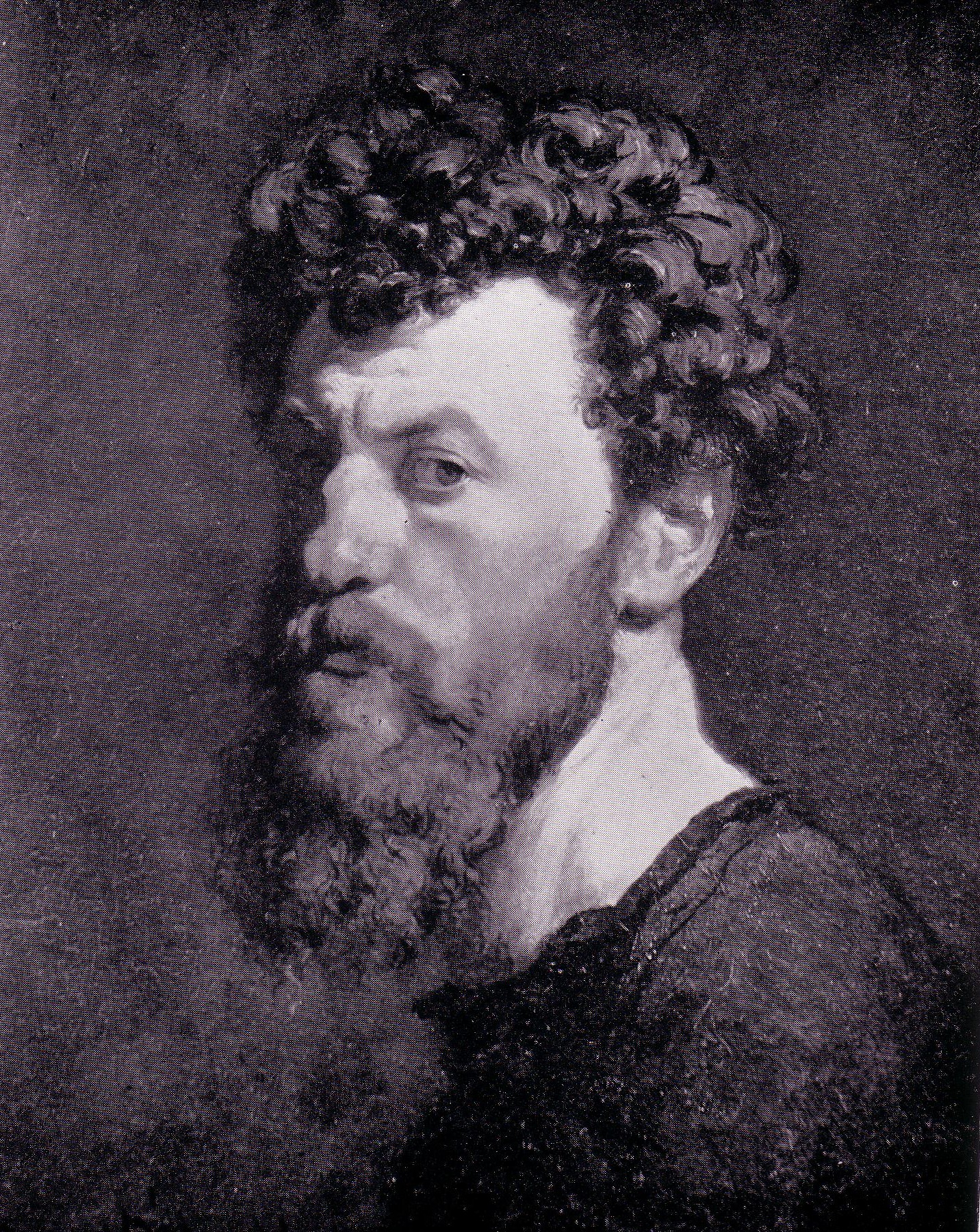 Self-portrait